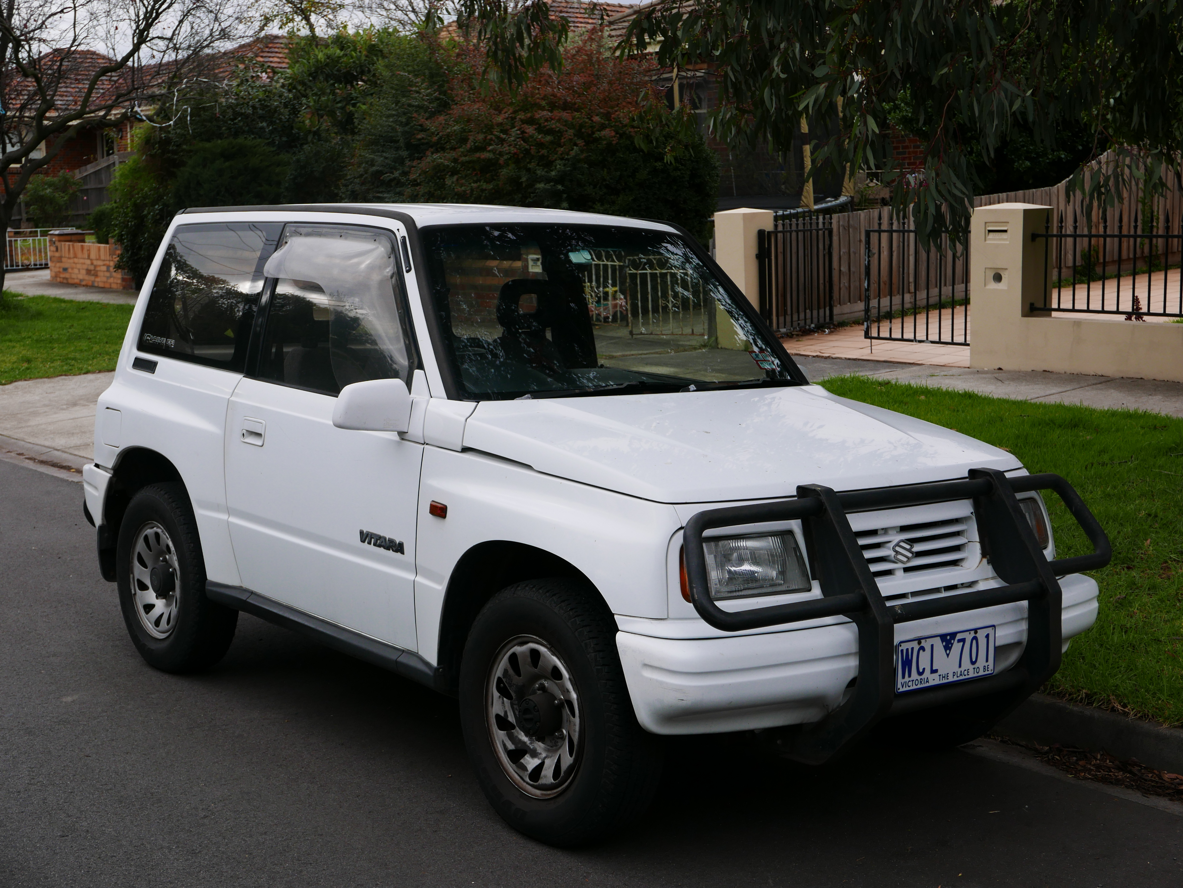 1995 Suzuki Vitara (SE416V Type3) JLX hardtop. Photographed in Thornbury, Victoria, Australia. Vehicle registration enquiry results Jurisdiction Victoria Registration WCL701 Chassis code JSAETA02V01120082 Engine code G16B563929 Compliance date 1995-11 Year of manufacture 1996 (not a typo)